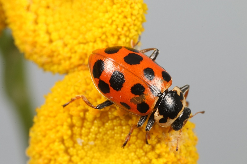 Hippodamia tredecimpunctata (Coccinellidae) (13-spot Ladybird) - (imago), Brummen - Empesche en Tondensche Heide, the Netherlands